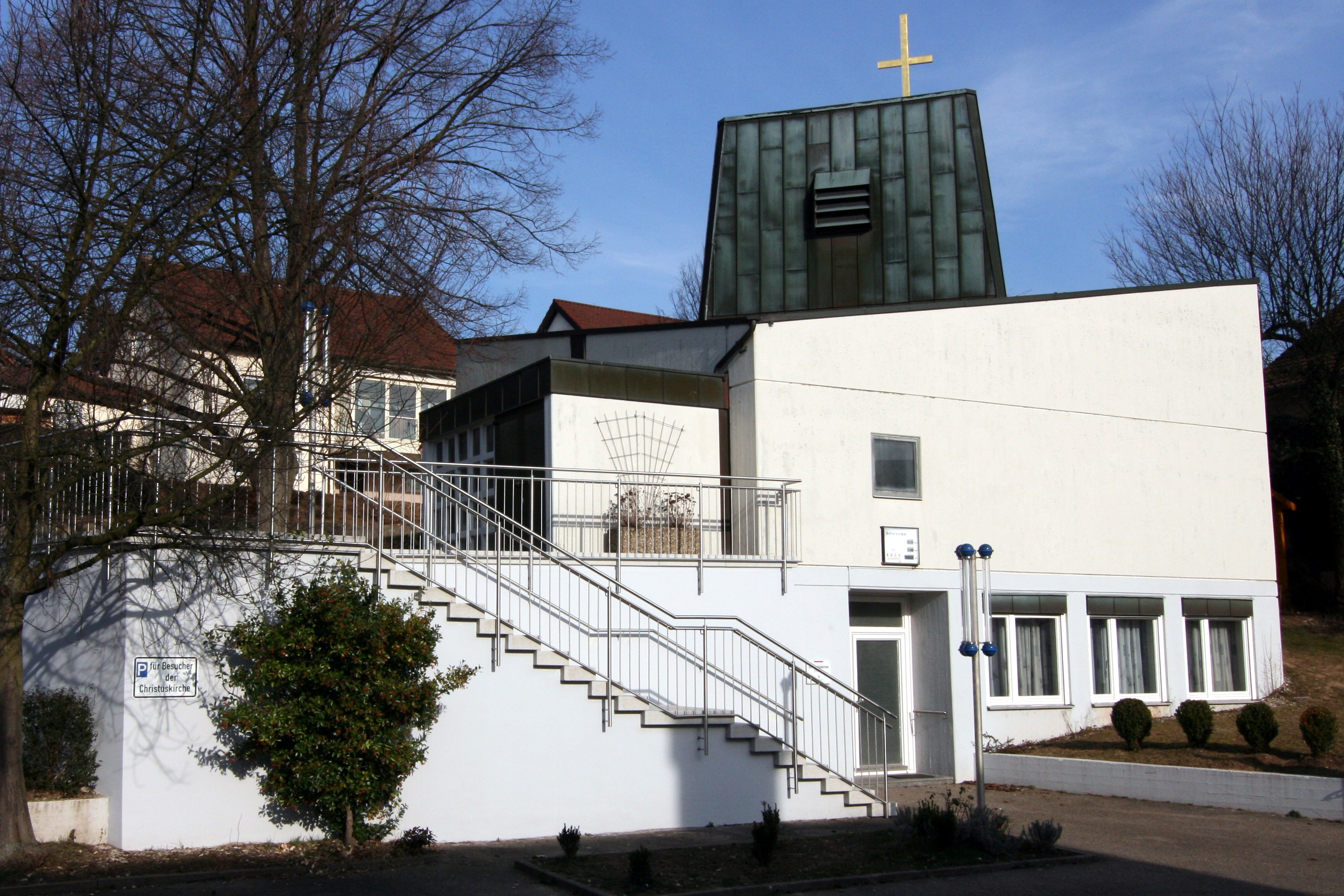 Protestant Christ church in Erlenbach